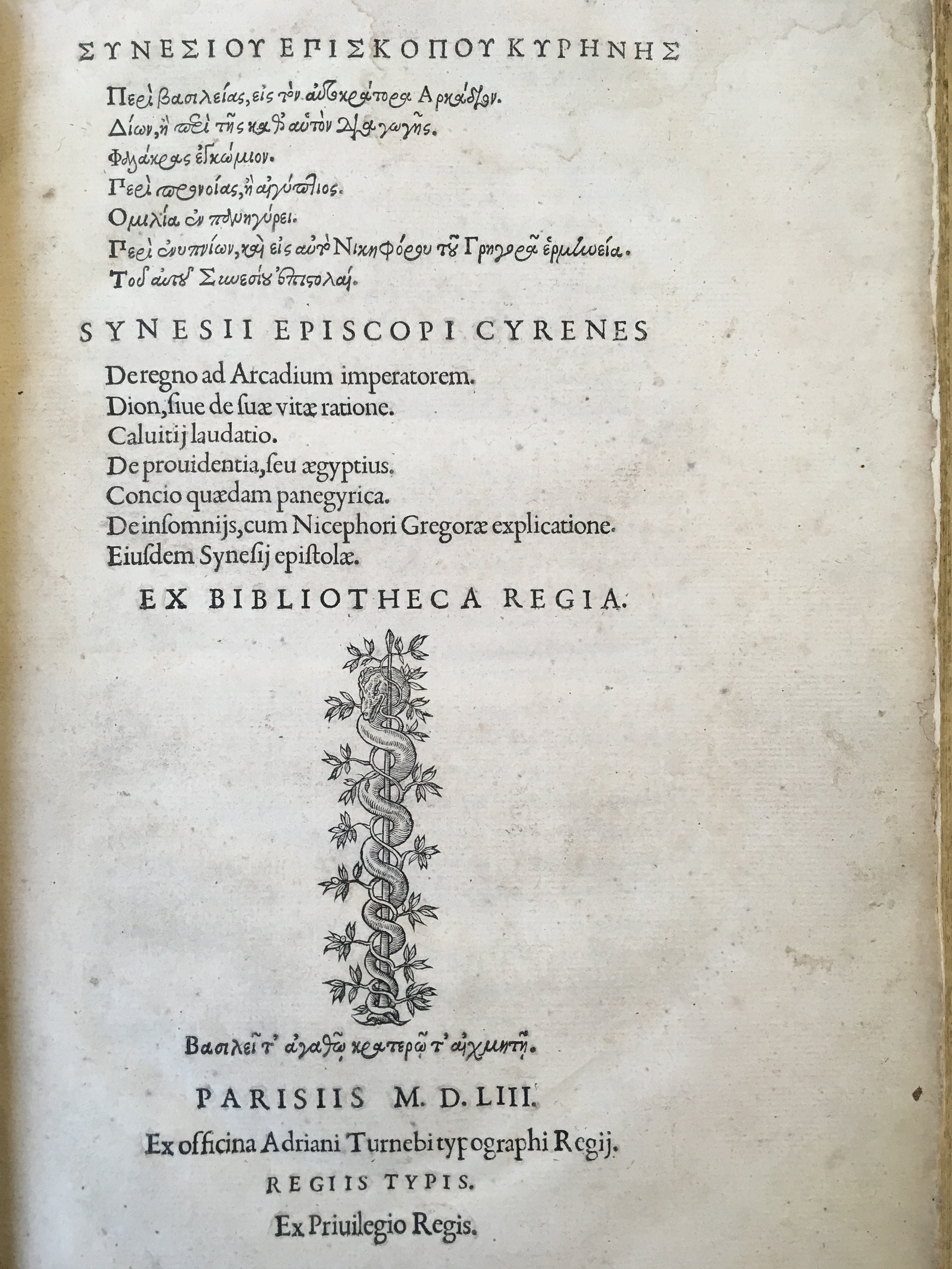 This is a photograph of the first page of the first print edition of Synesius' works (edited and printed by Adrian Turnèbe in 1553), which features two of his letters to Hypatia. This photograph was taken at the Institute Archives of the Massachusetts Institute of Technology.